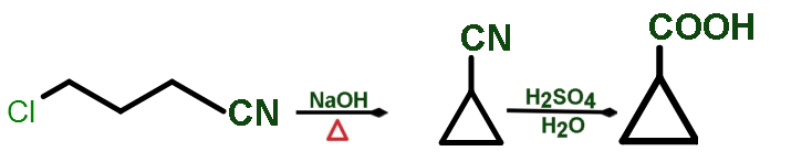 Cyclopropanecarboxylic acid synthesis from γ-chlorobutyronitrile